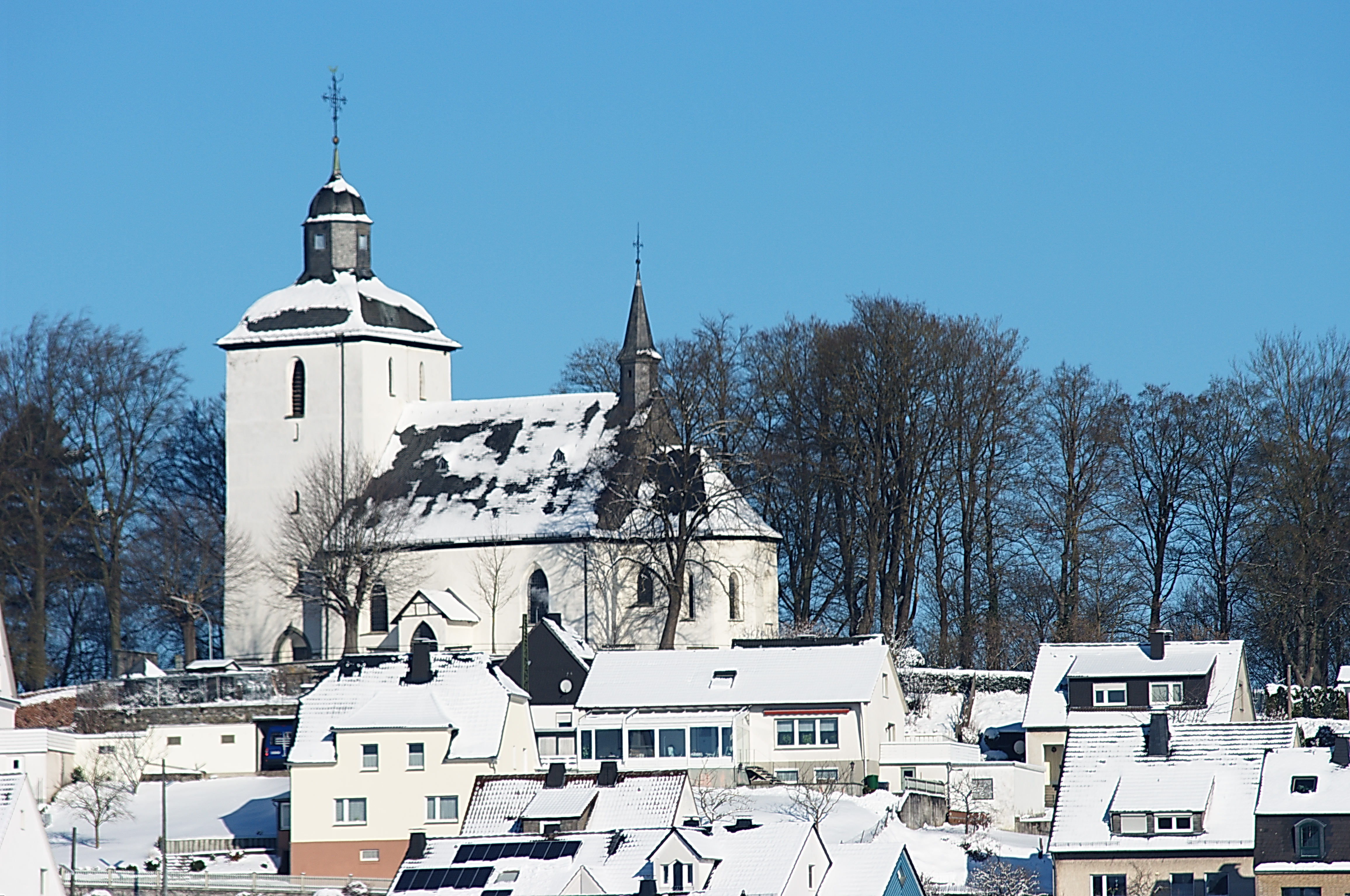 Warstein: The "Old Church" on perfect winter day